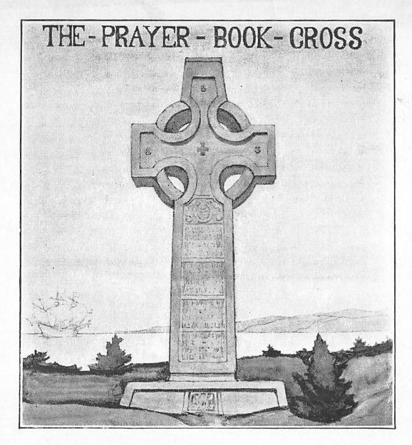 Drawing by the Reverend Dr. Clifton Macon (died 3 March 1947) of the Prayer Book Cross (dedicated in 1894) from a postcard, copyright 1906